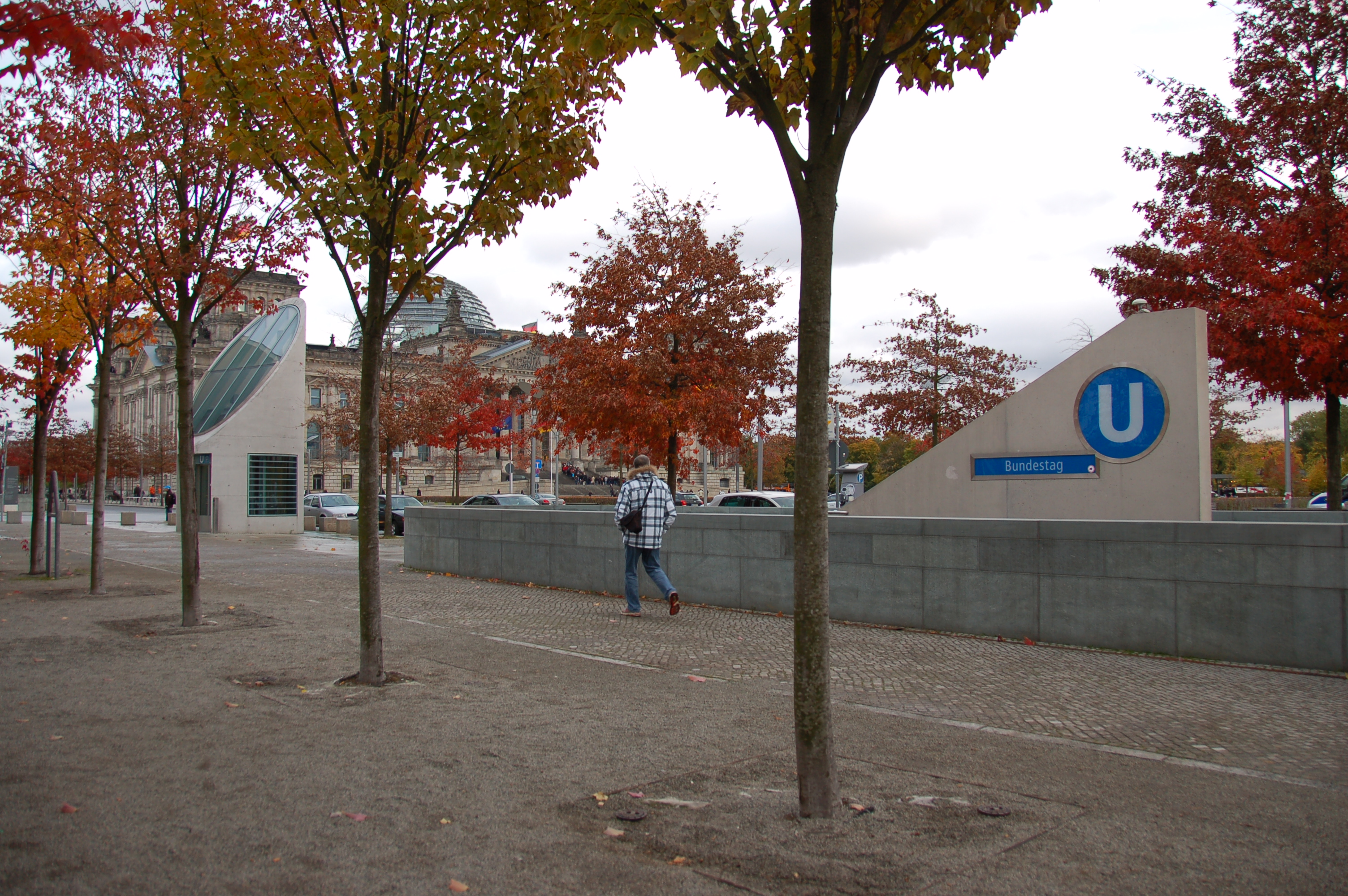 Screenshot für eine HDR- Erstellung mit Photoshop This file is used in a Wikiversity project or course. Please don't change it before you inform the author.